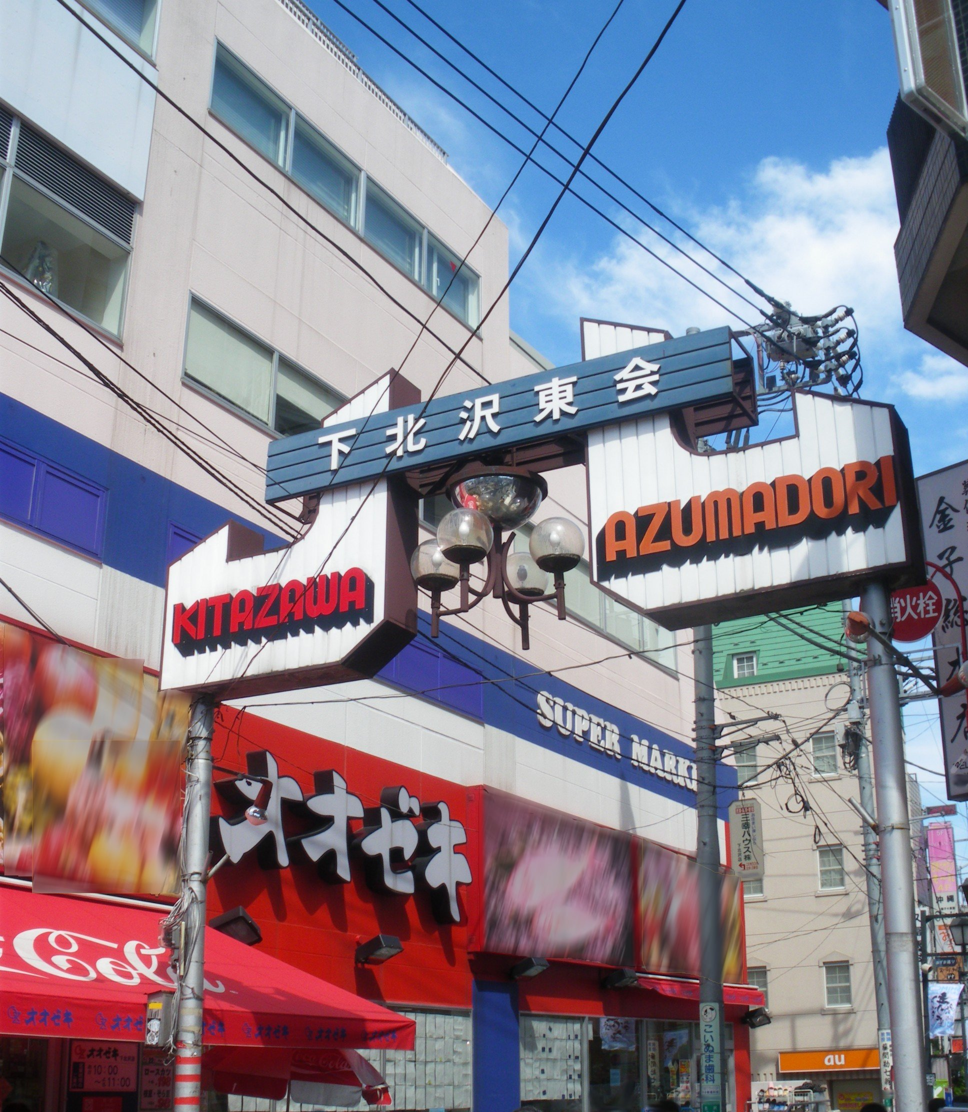 Kitazawa Azumadori (Setagaya,Tokyo)